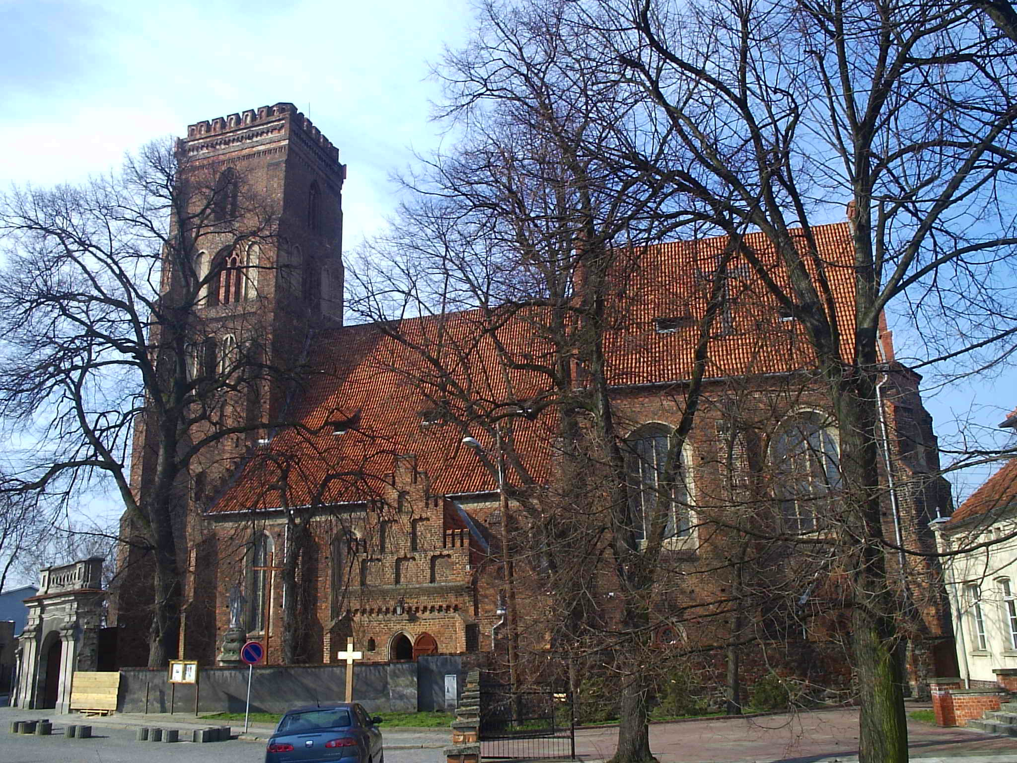 Church in Gostyń, Poland